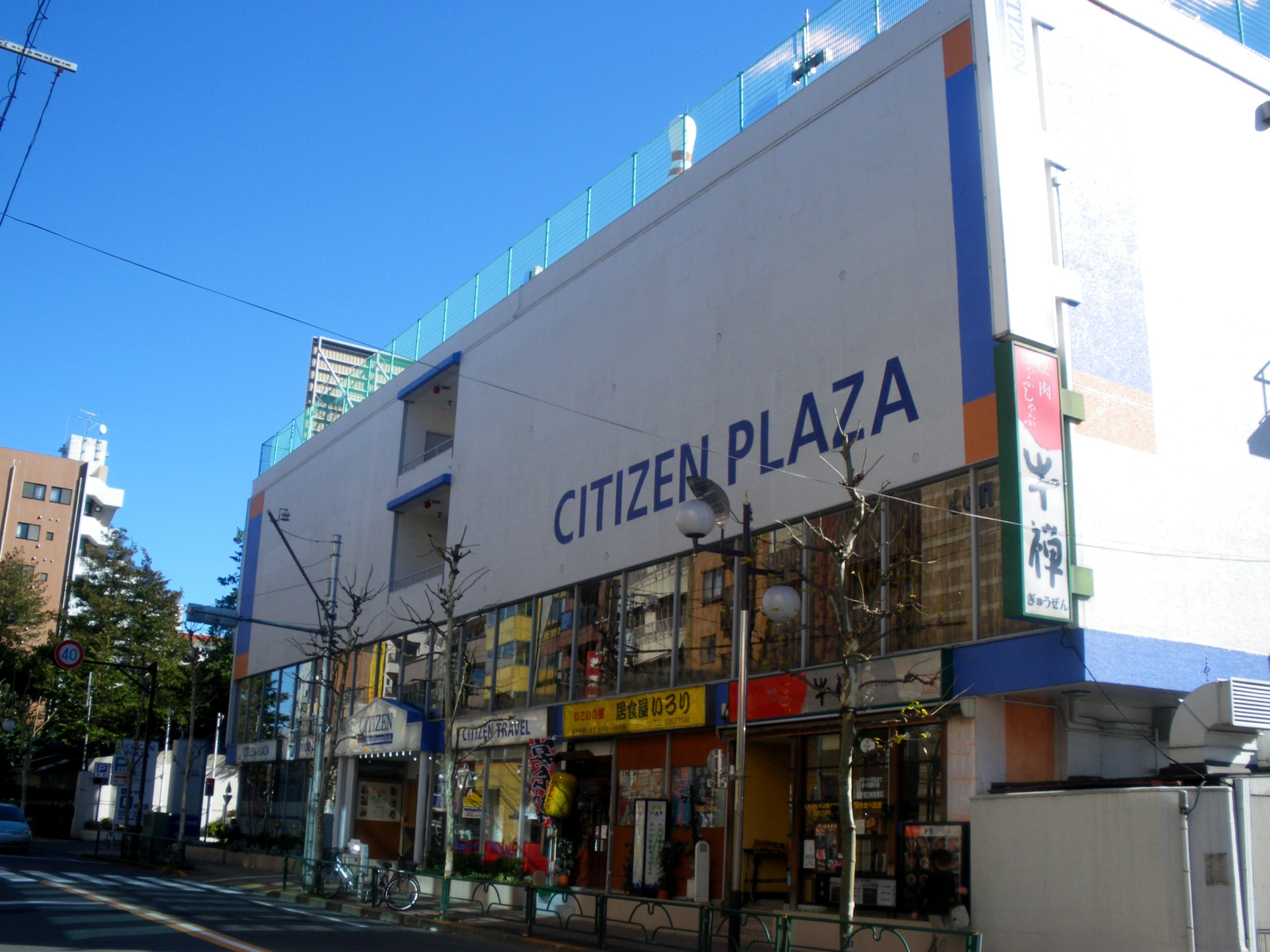 A photo of CITIZEN PLAZA ,a commercial building in Takakadanobaba,Shinjuku-ku,Tokyo,Japan.this building is built on the former CITIZEN WATCH factory site.